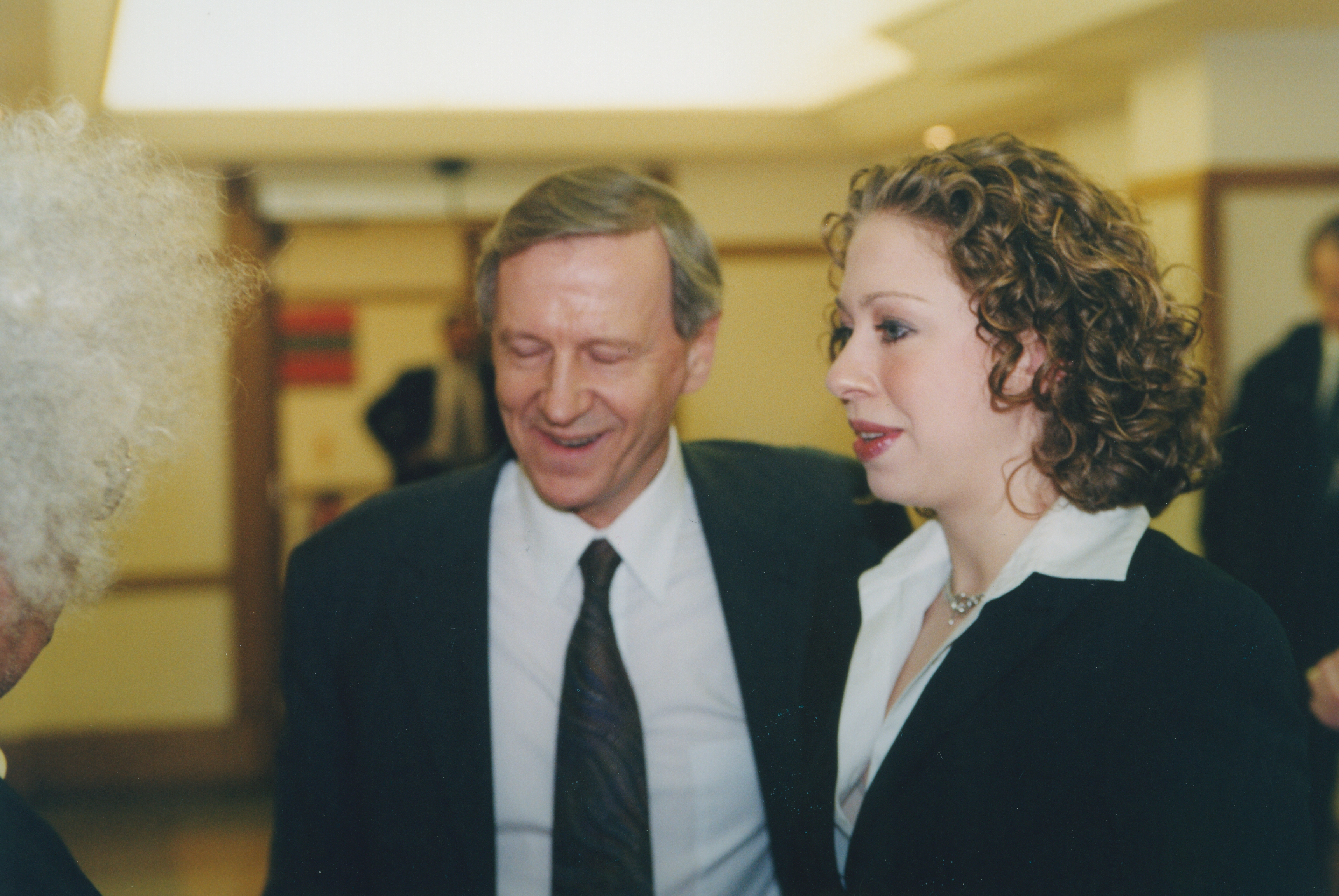 Public lecture, 'On Globalisation,' 13th December 2001 IMAGELIBRARY/869 Persistent URL